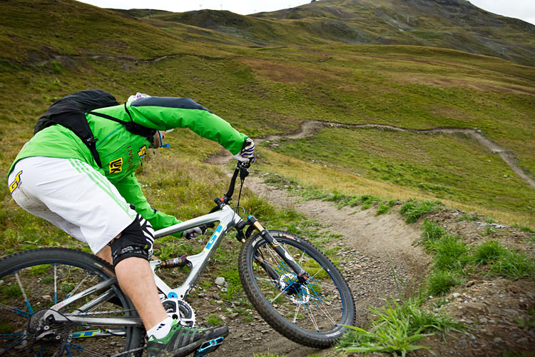 First ever Flow Country Trail Livigno, Italian Alps